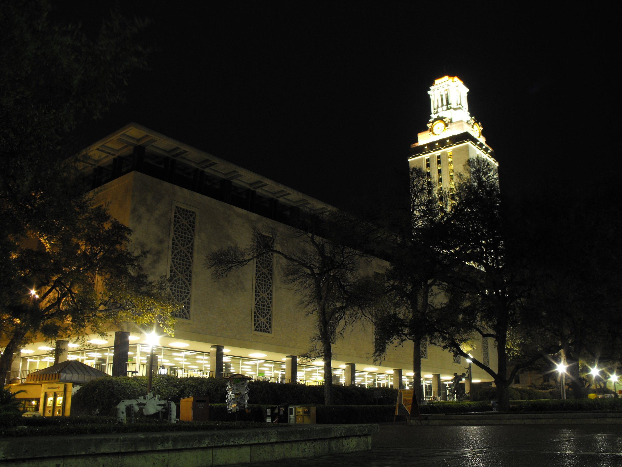 Flawn Academic Center and UT Main Tower at night.